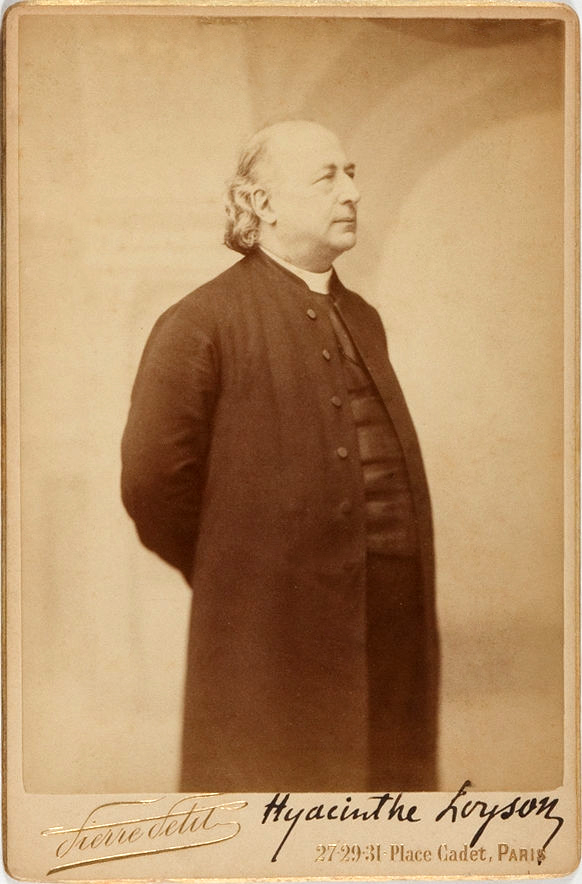 Signed Cabinet Card Portrait of Hyacinthe Loyson